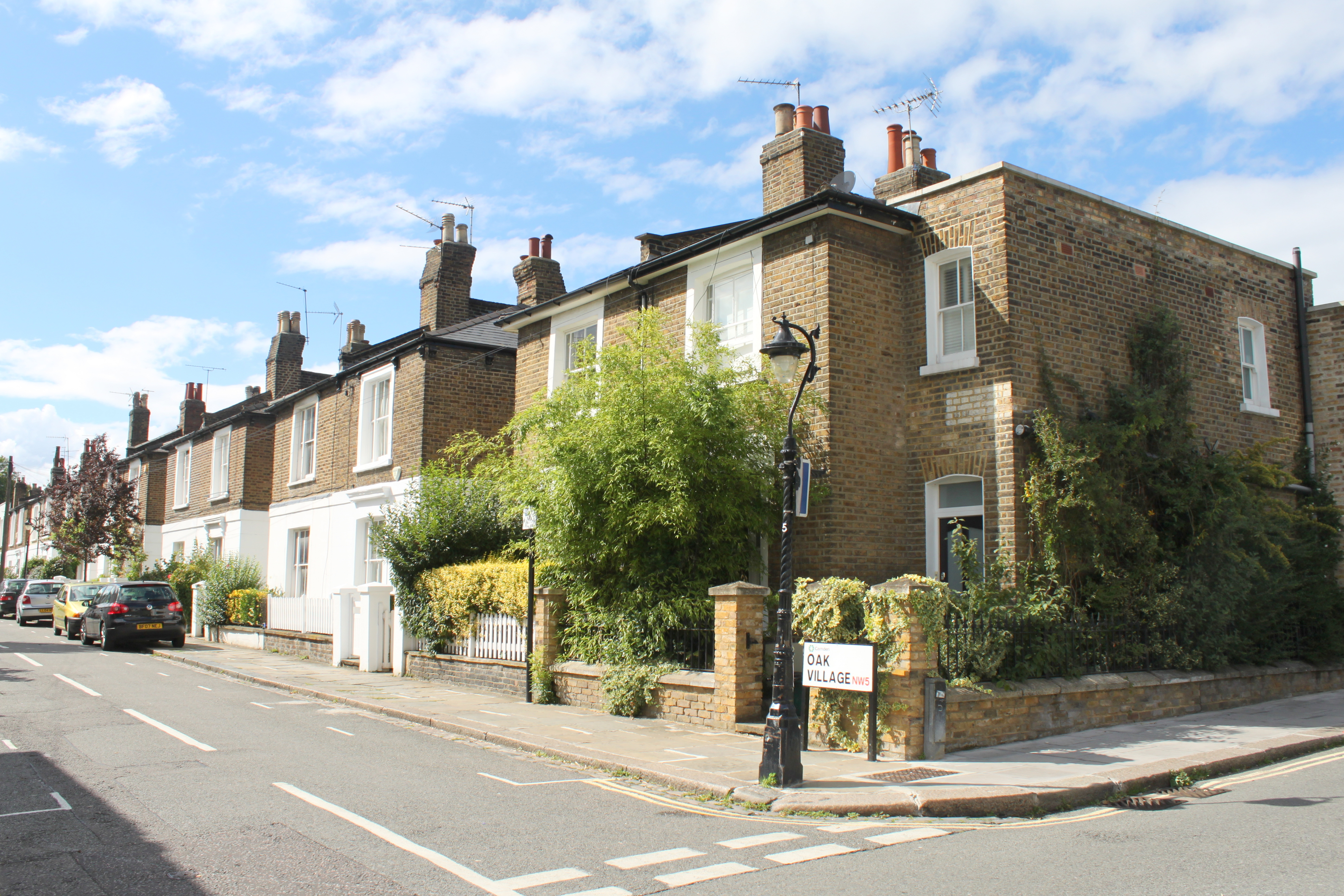 Photo of Oak Village, a street in Gospel Oak